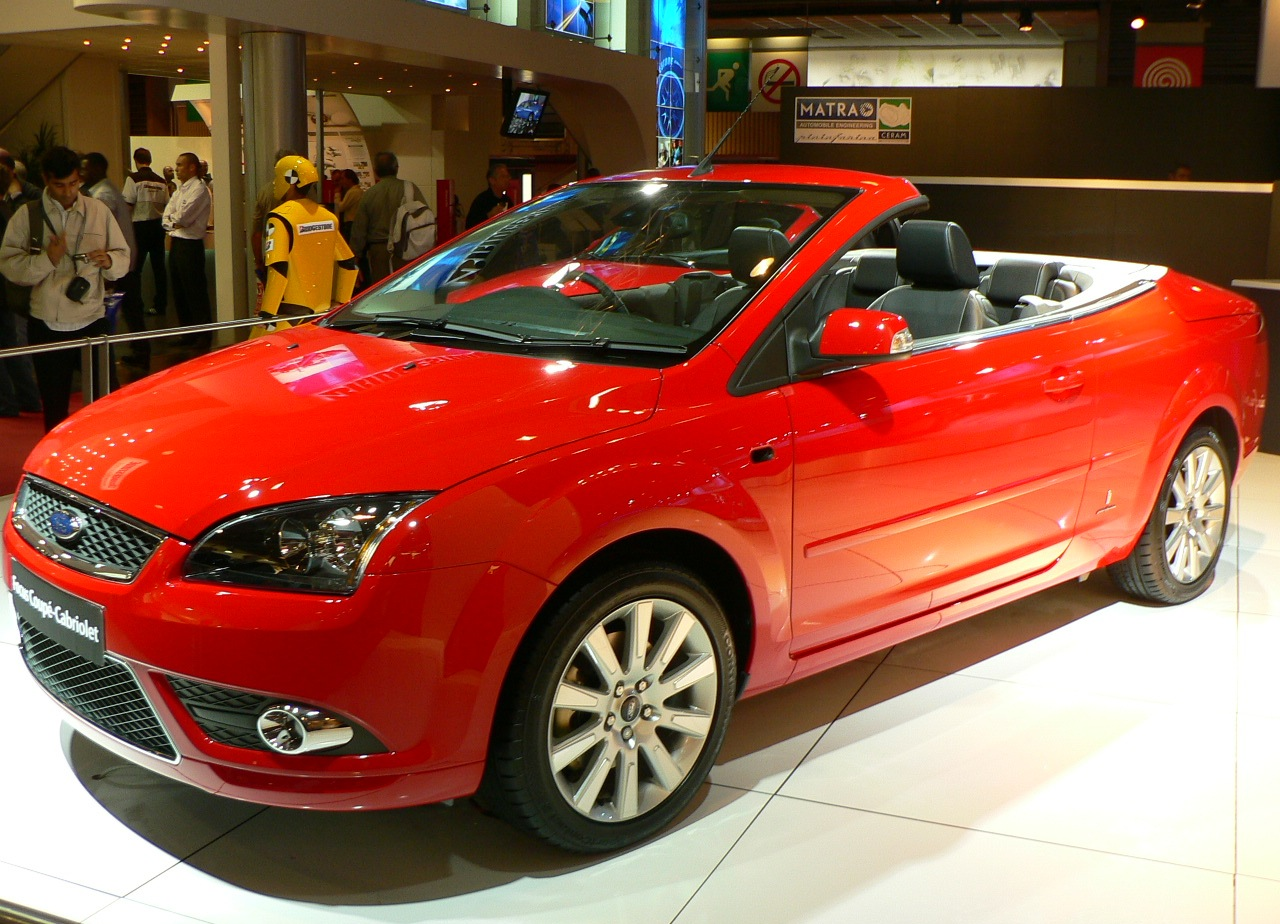 Ford Focus convertible at the 2006 Paris Motor Show